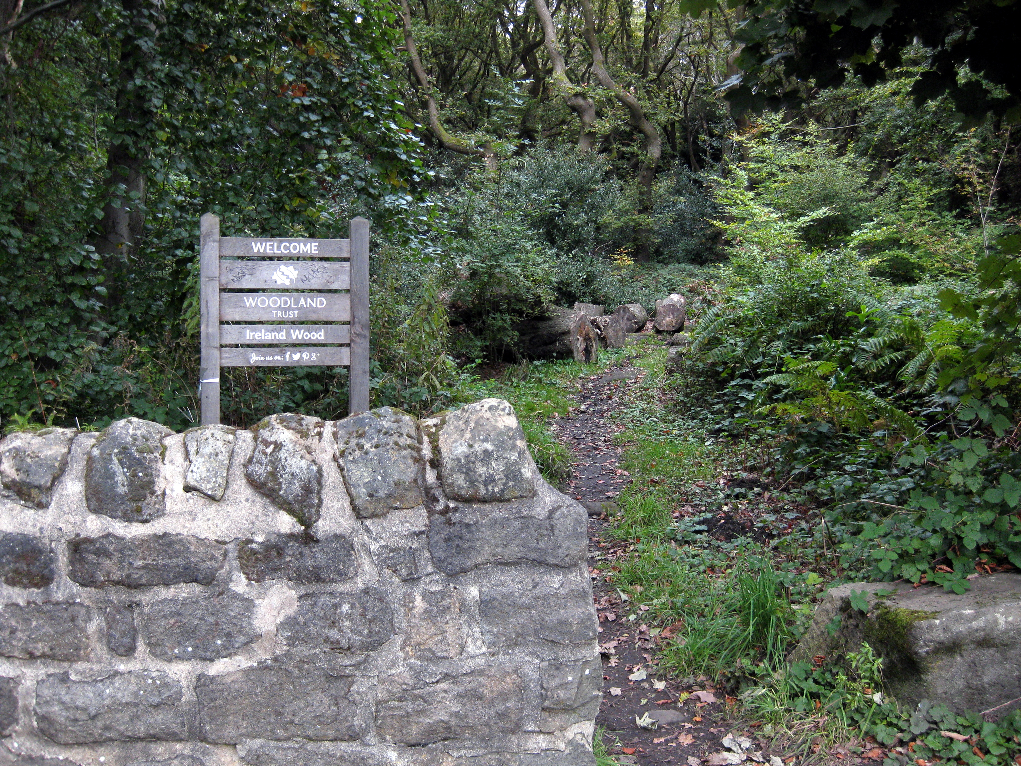 Main entrance to Ireland Wood, Hospital Lane, Leeds LS16